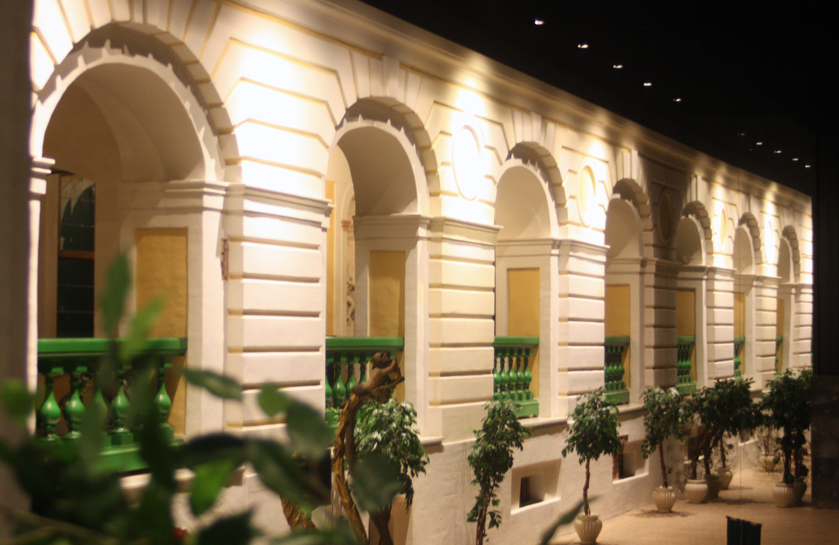 Peter I's Winter House